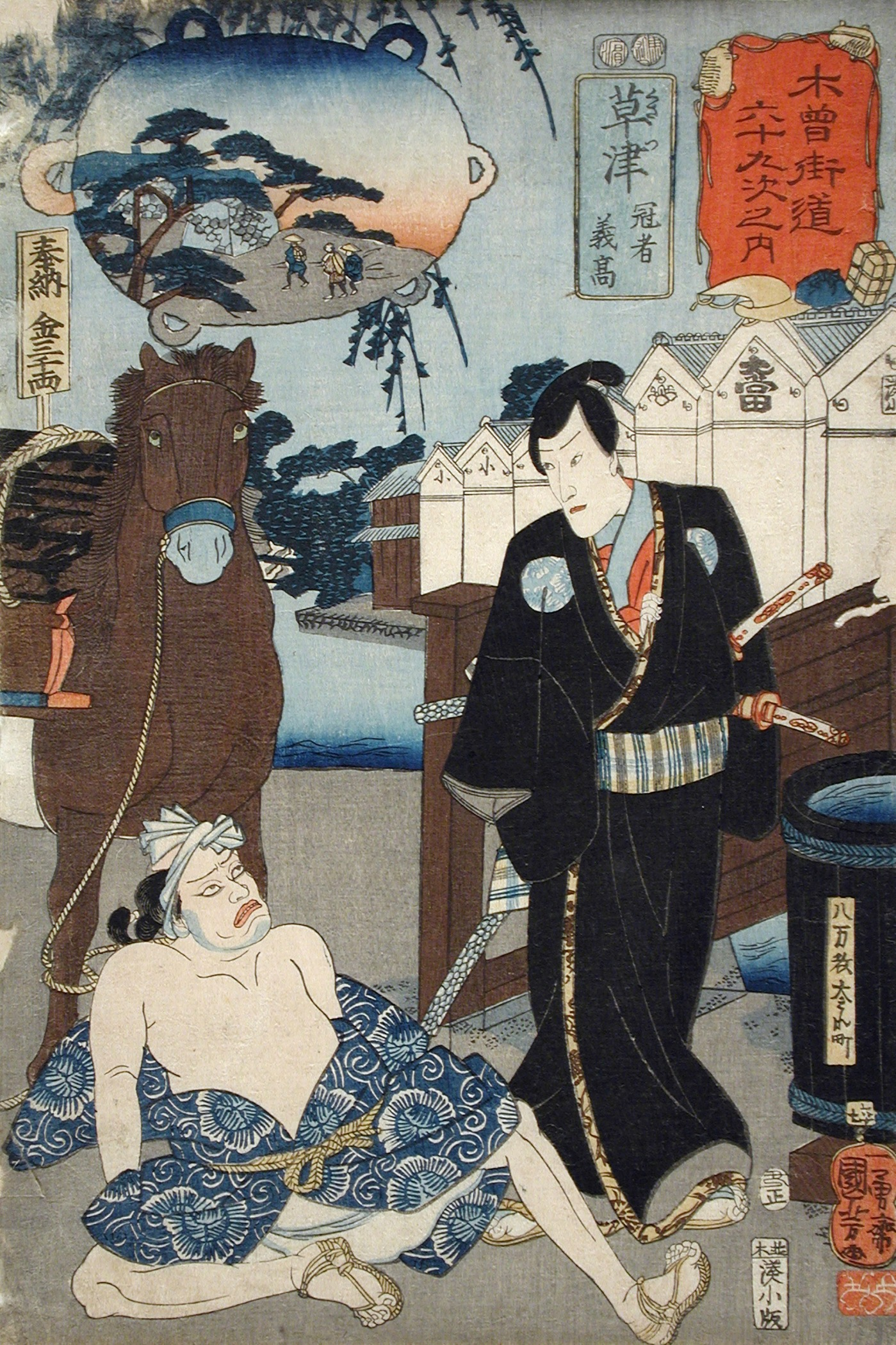 Japan, 1853 Series: Sixty-nine Post Stations on the Kisokaido Prints; woodcuts Color woodblock print Image: 14 3/16 x 9 1/2 in. (36.04 x 24.13 cm); Sheet: 14 3/16 x 9 1/2 in. (36.04 x 24.13 cm) Gift of Chuck Bowdlear, Ph.D., and John Borozan, M.A. (M.2000.105.98) Japanese Art